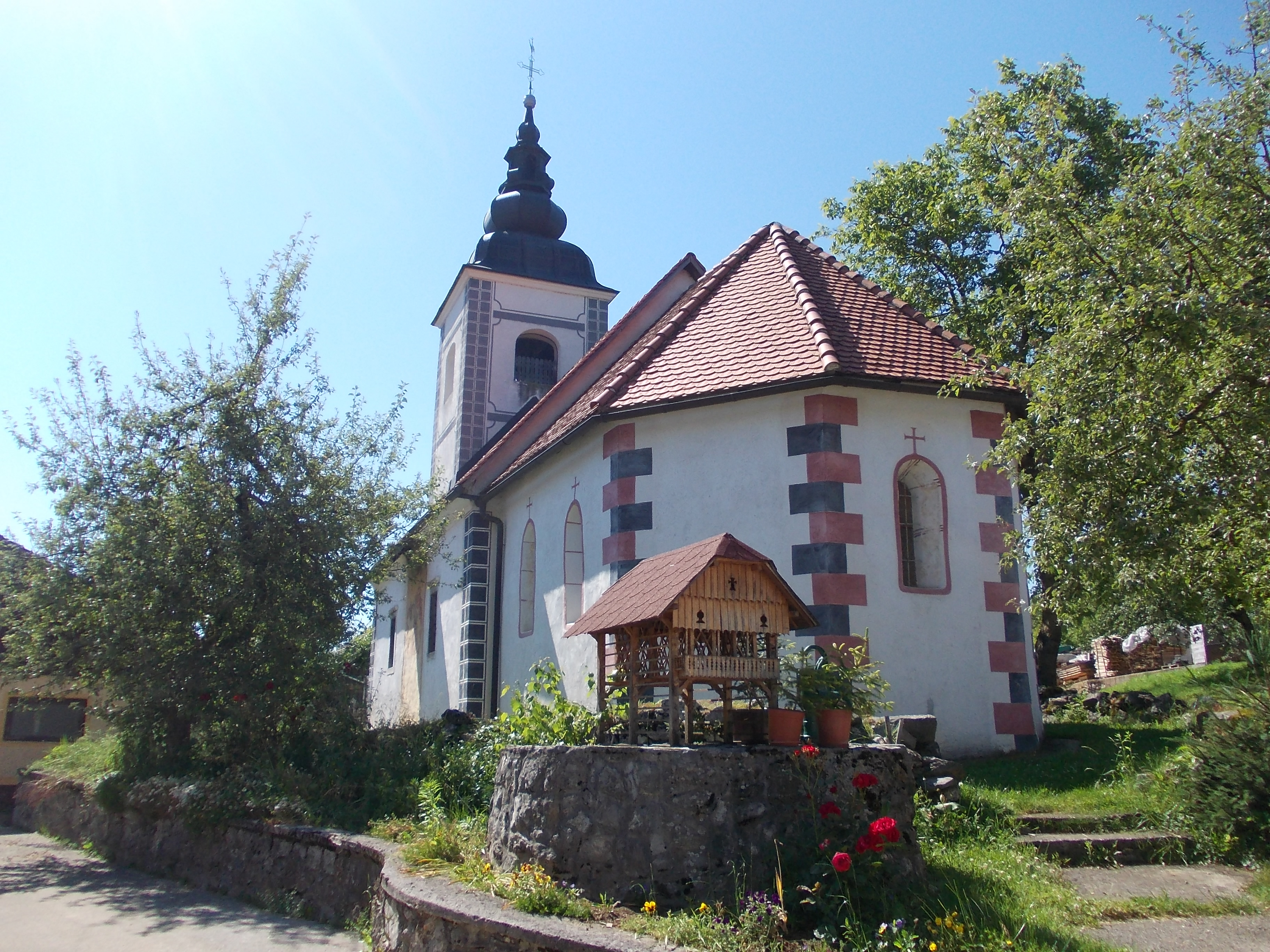 Saint Agnes of Rome Church, Lopata